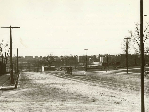 Grand Concourse and E 161 street in the Bronx